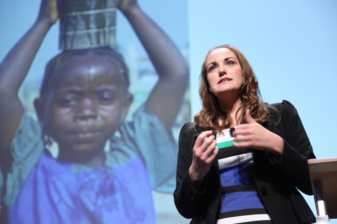 Emily Cummins presenting at the Cusp Conference, Chicago IL September 2011